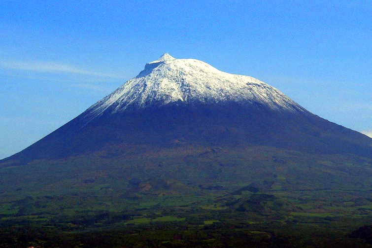 Mount Pico, Azores.